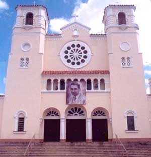 Sweet Name of Jesus Cathedral, Caguas, Puerto Rico.